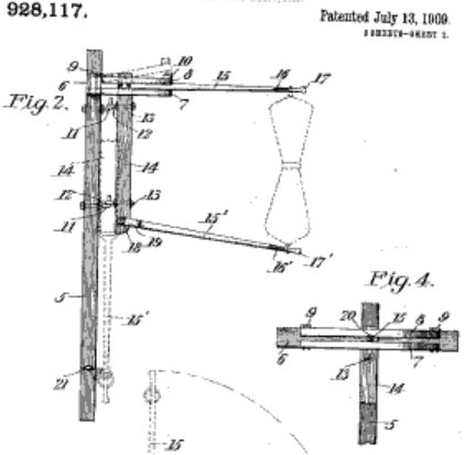 Patent number: 928117 drawing